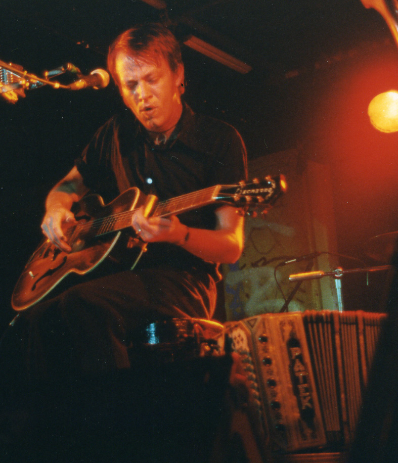 David Eugene Edwards of 16 Horsepower performing live in 1998.